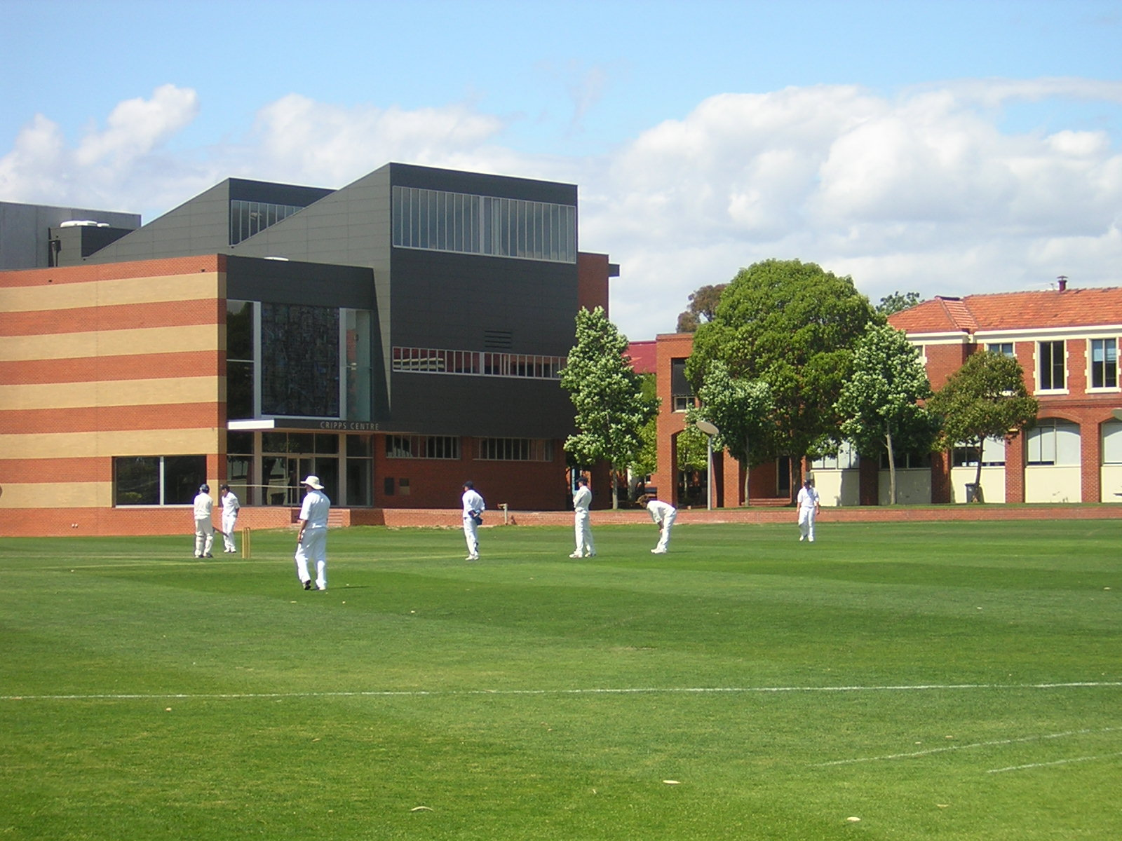 Caulfield Grammar School - Caulfield Campus. The Cripps Centre facility is at left, with the main classroom buildings on the right. In the foreground, cricket on the Alf Mills Oval.